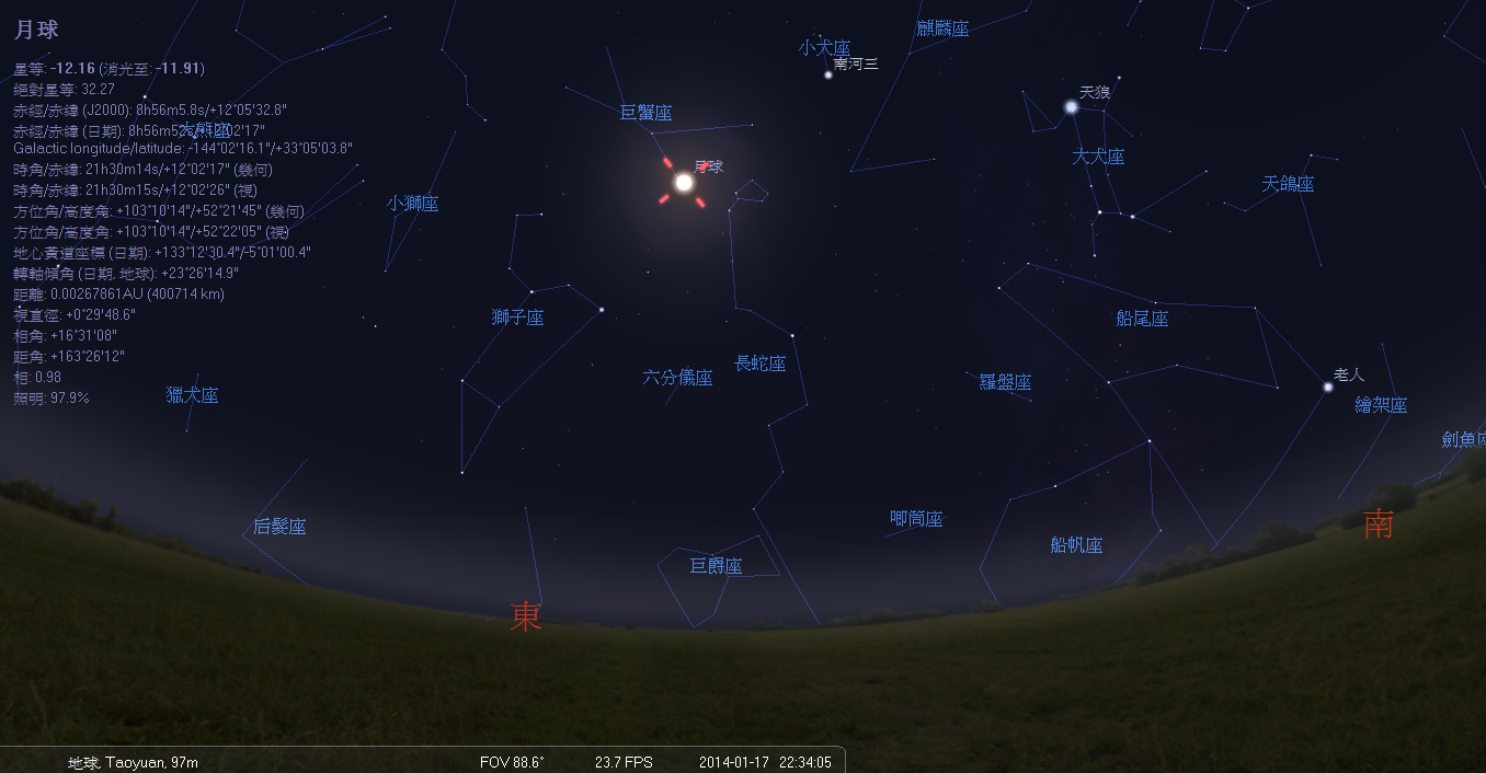 Stellarium0.12.4(Ver)